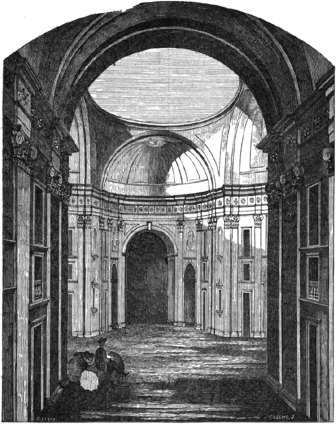 Engracia Church in Lisbon still lacking its central dome (1863)